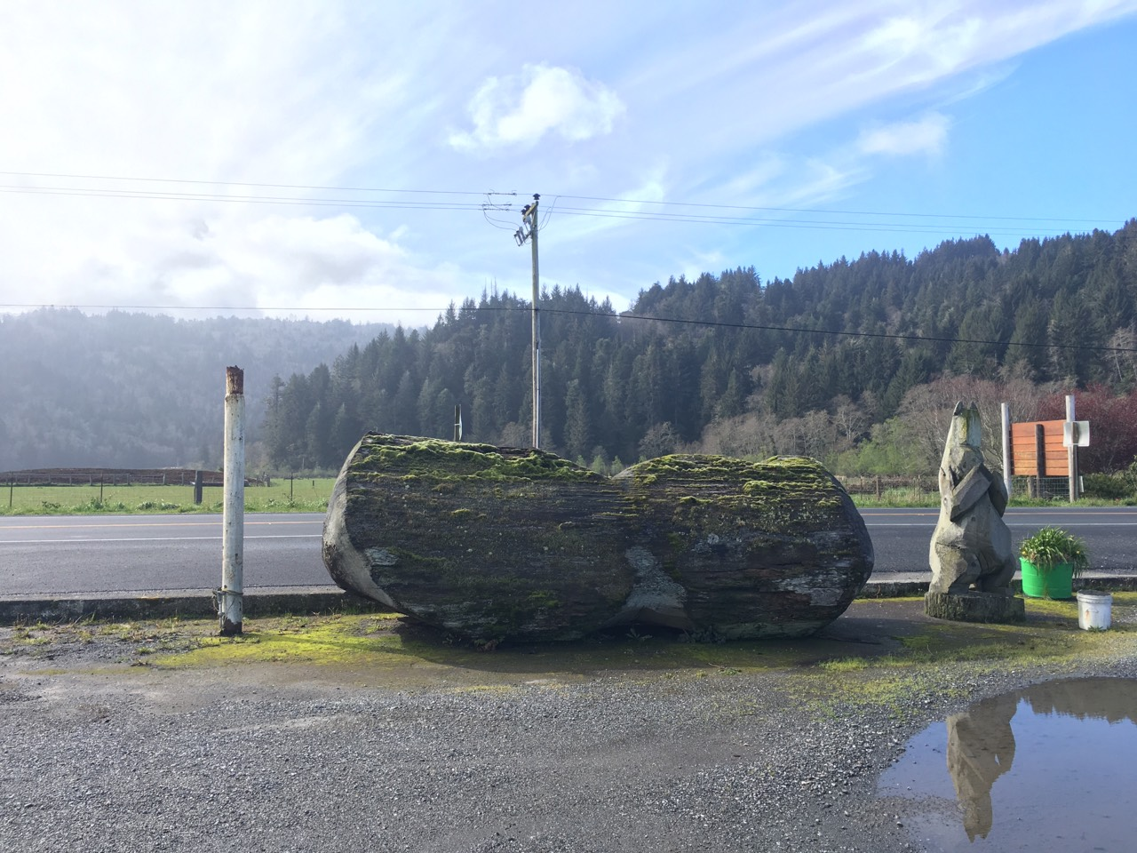 View of the Orick Peanut with Highway 101 in the background